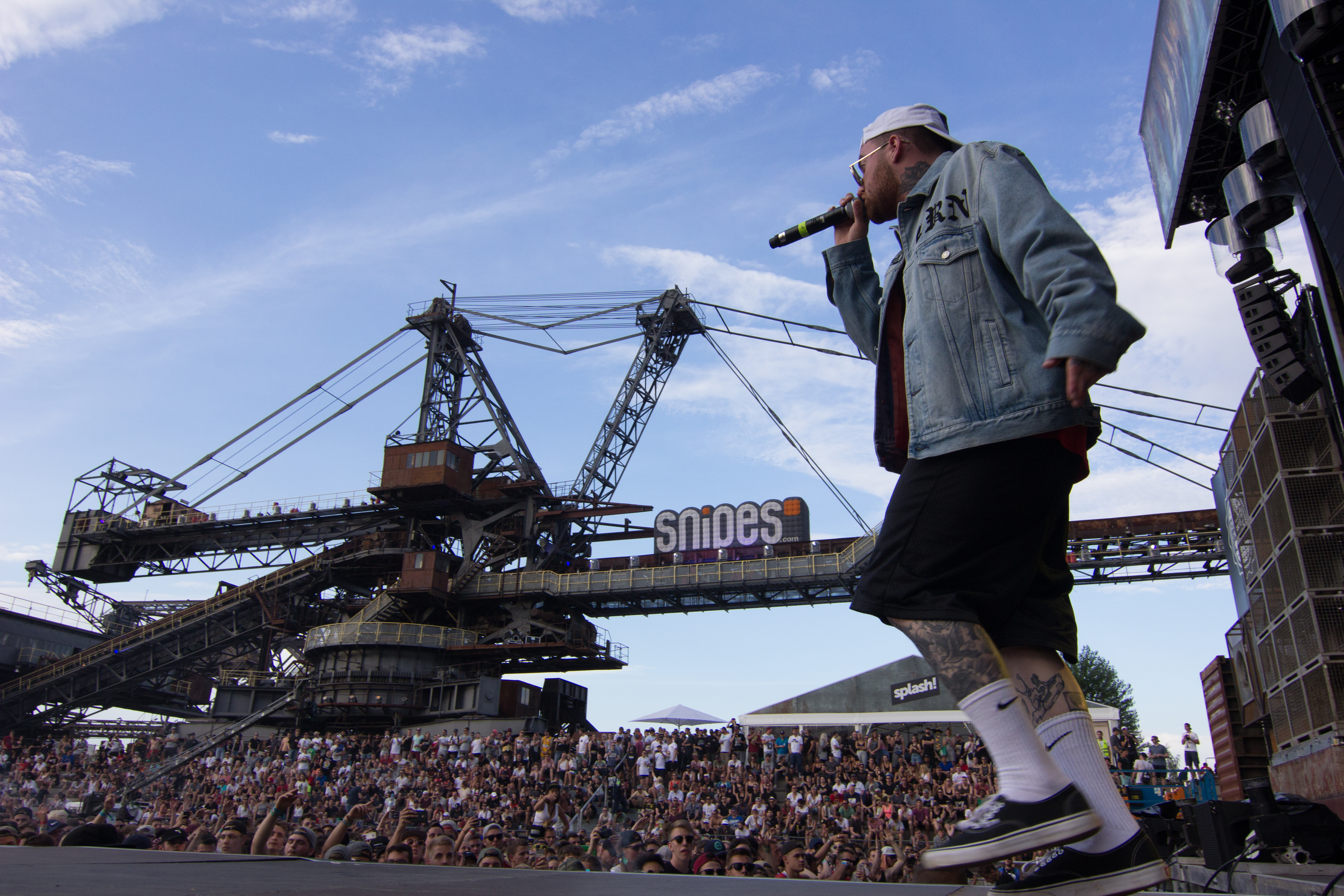 Mac Miller on the Splash!20 Mainstage